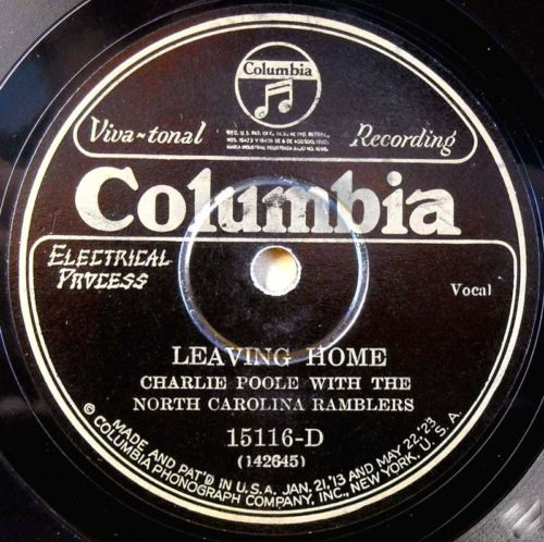 Leaving Home by Charlie Poole and the North Carolina Ramblers, Columbia 1926.